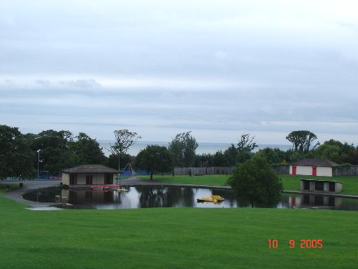 Eirias Park. Eirias Park boating lake at Colwyn Way